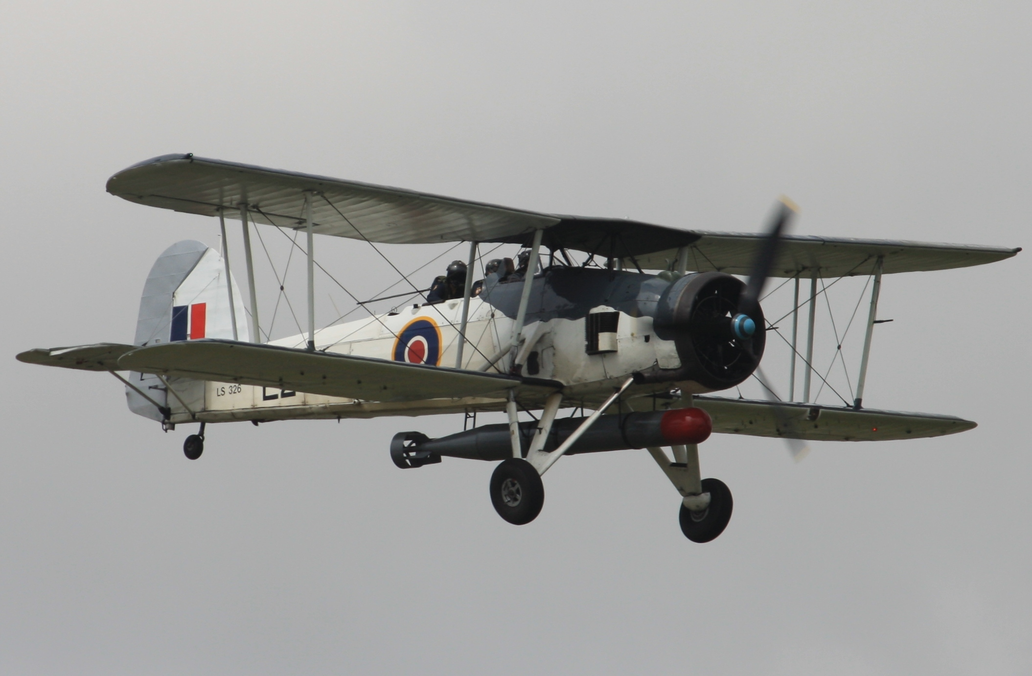 Culdrose (EGDR) UK - England, July 24 2013.